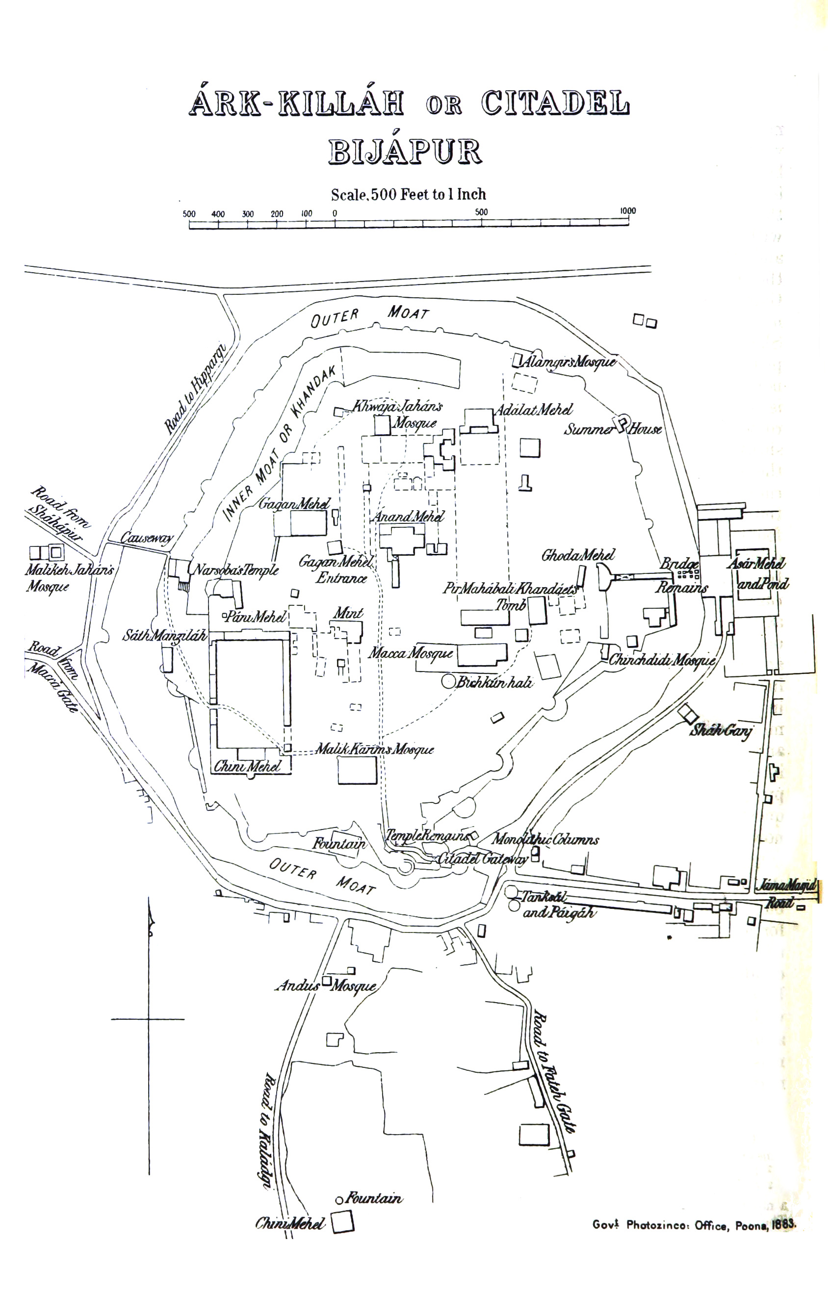 Bijapur citadel / fort